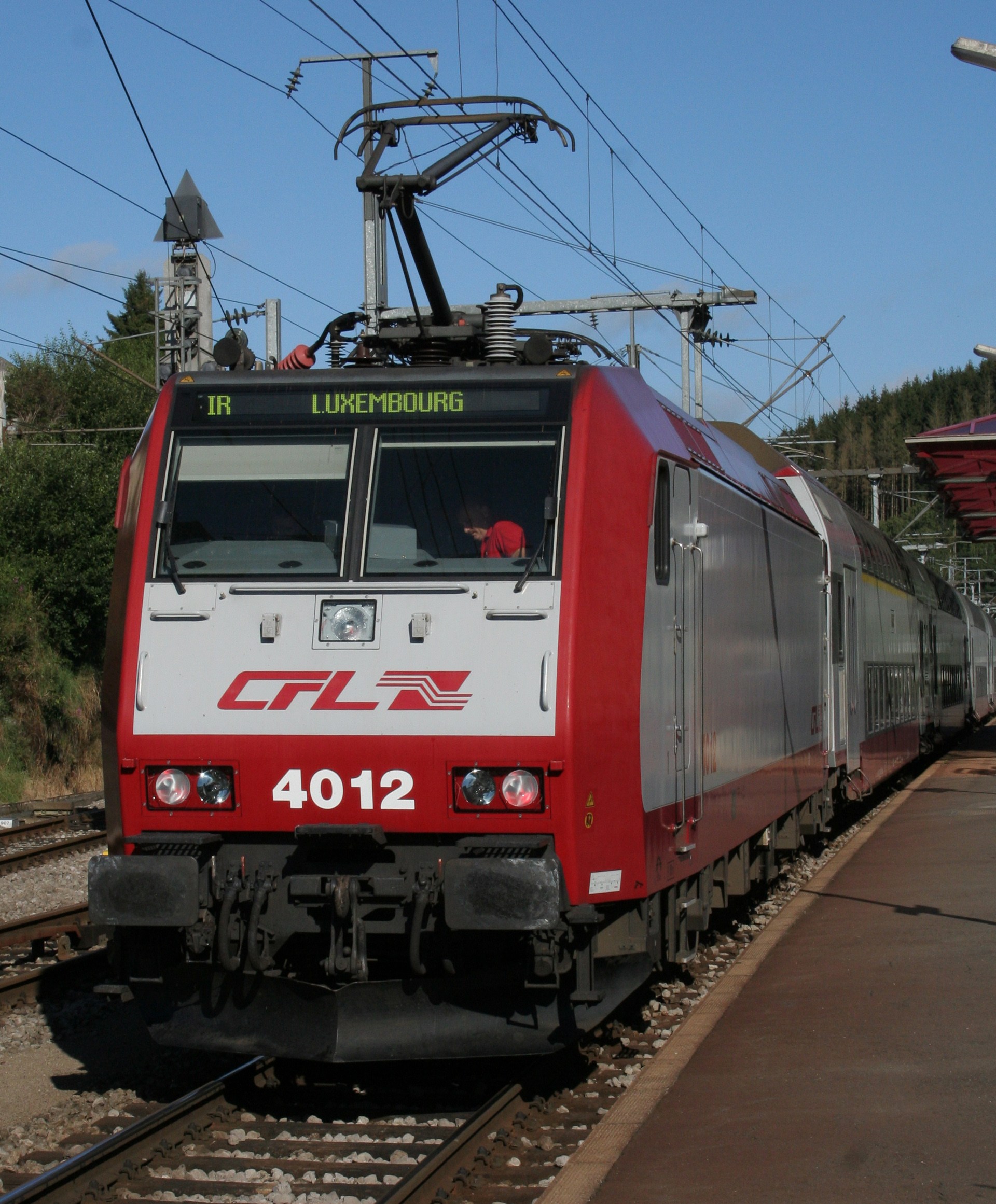 Photo of CFL 4012 in Troisvierges, Luxembourg.